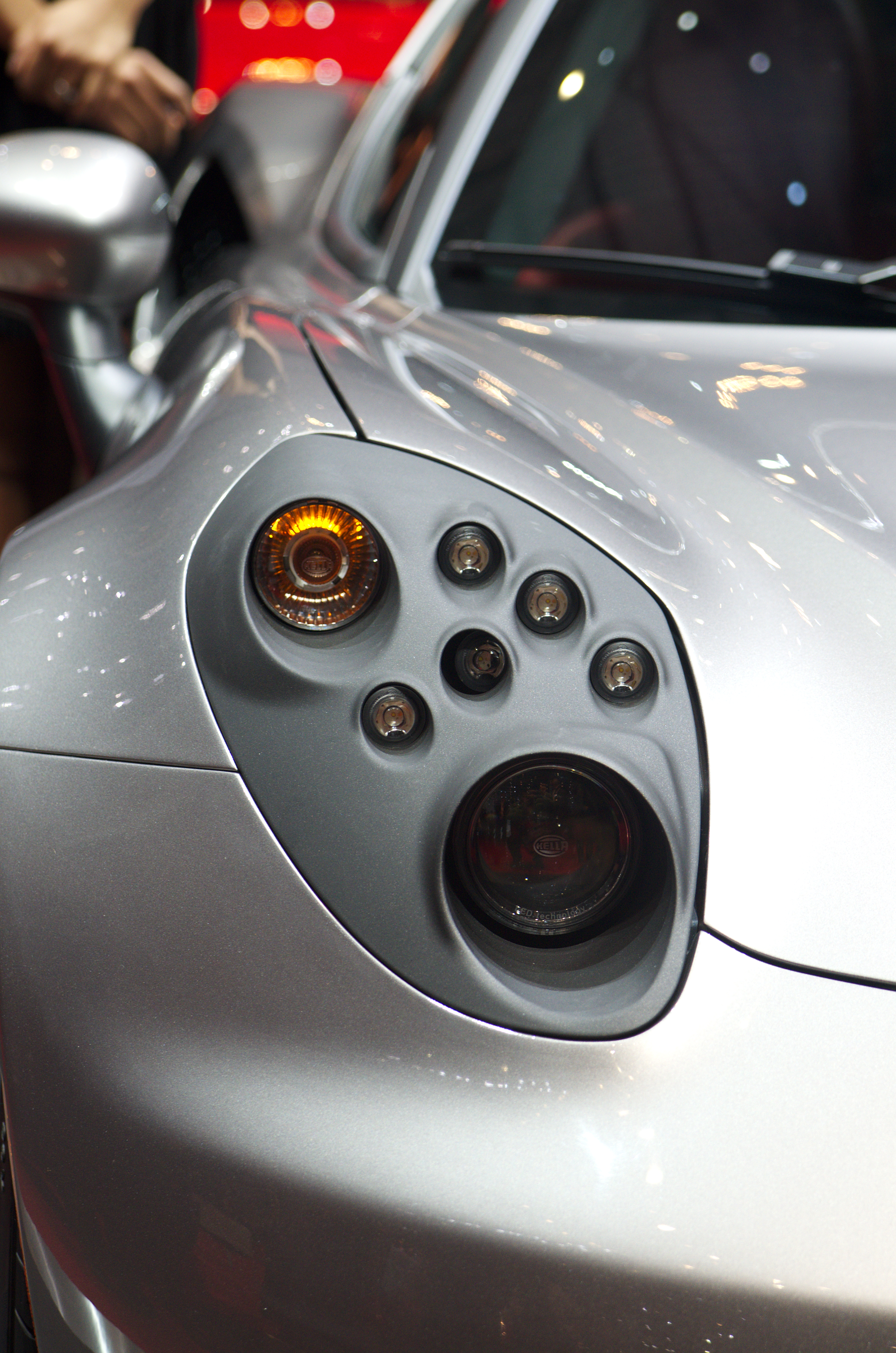 Geneva MotorShow 2013 - Alfa-Romeo 4C grey front light